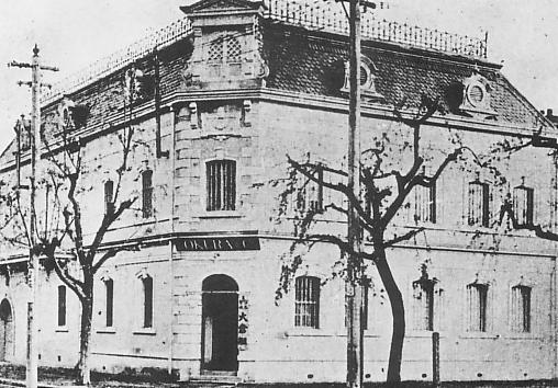 Okuragumi building in Meiji era